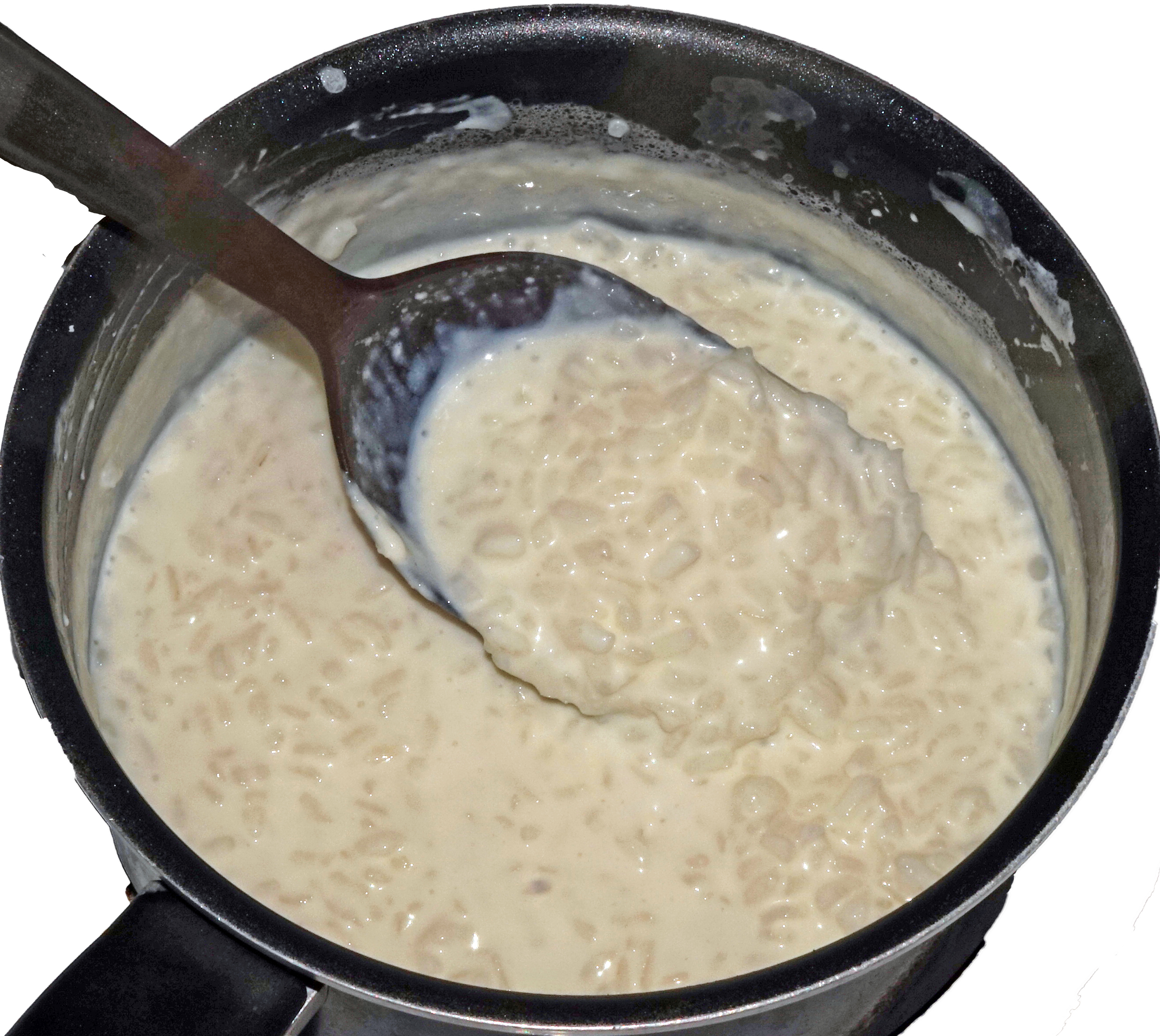 Rice porridge during boiling.